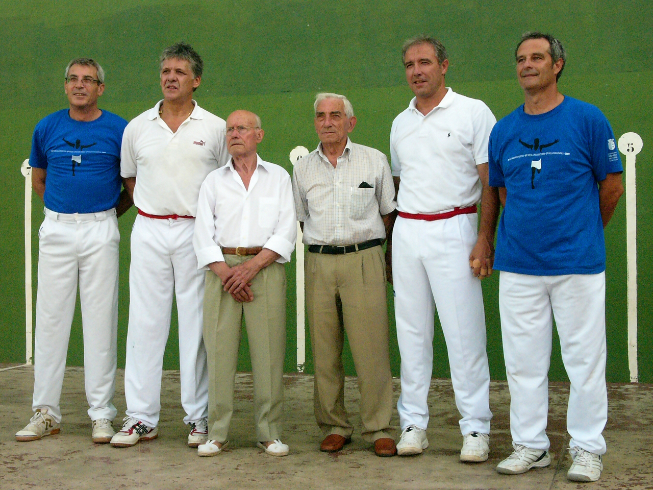 Valencian pilota 20th century living legends Puchol, Genovés, Juliet, Sabateret, Sarasol and Fredi in Alginet